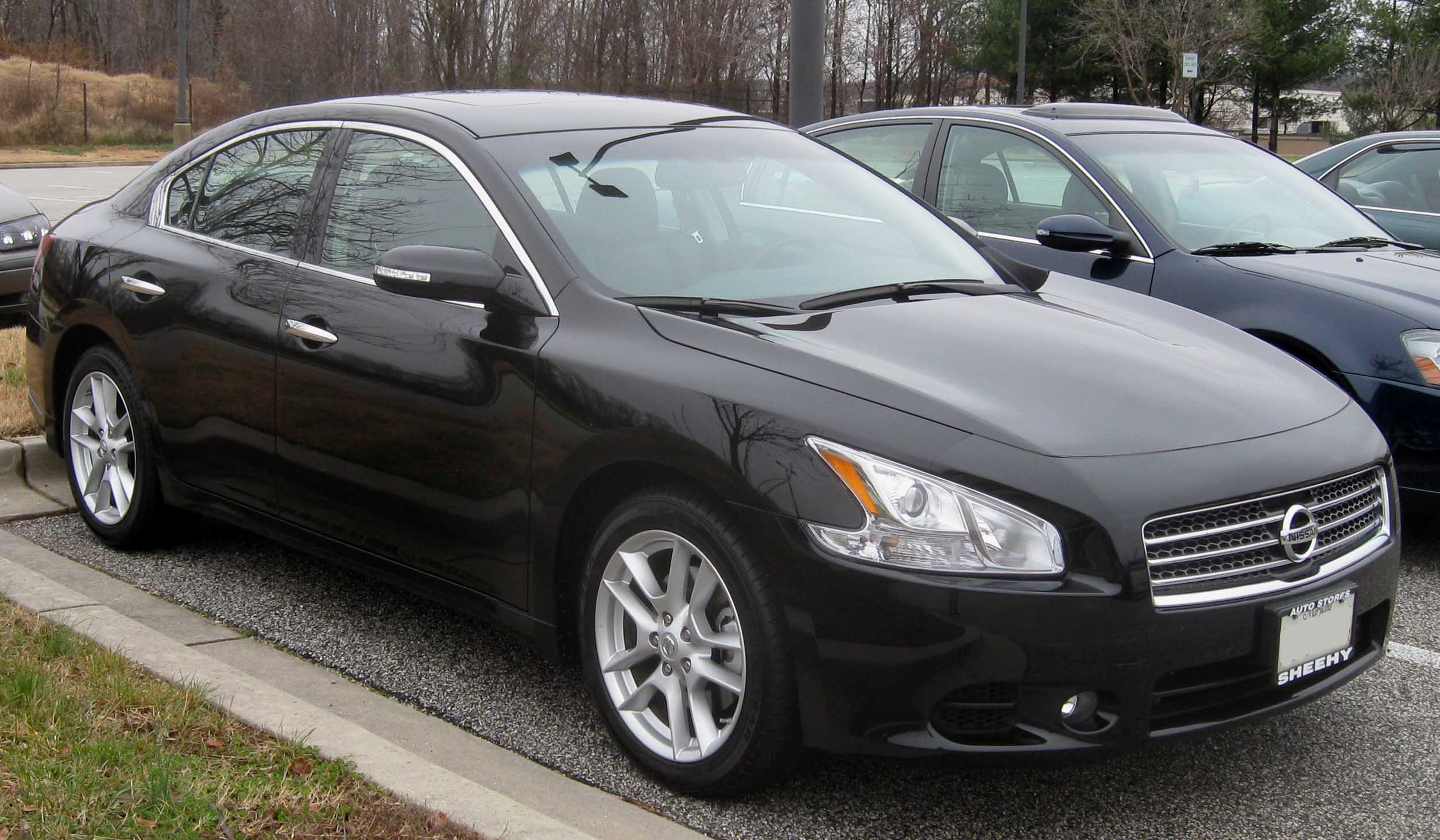 2009 Nissan Maxima photographed in Fort Washington, Maryland, USA.